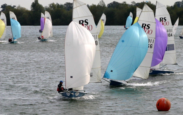 Boats racing to Buoy 1 at Burghfield Sailing Club. This photo was taken from the clubhouse (SU652704) as the boats head in a north-westerly direction to go round Buoy No.1 which is located at SU653703. This picture shows the more human aspect of the geography of this square.